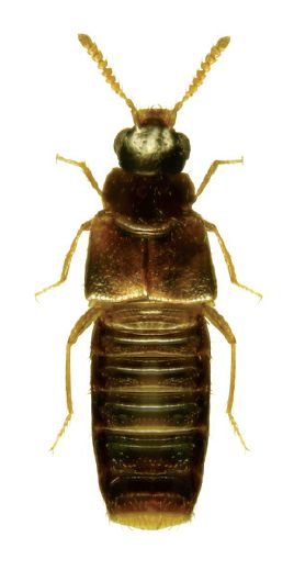 Dorsal view of Gyrophaena (Phaenogyra) subnitens (apical part of abdomen removed).